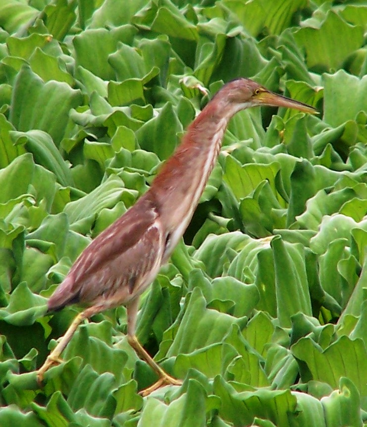 Yellow Bittern Ixobrychus sinensis, Sanmin, Taiwan